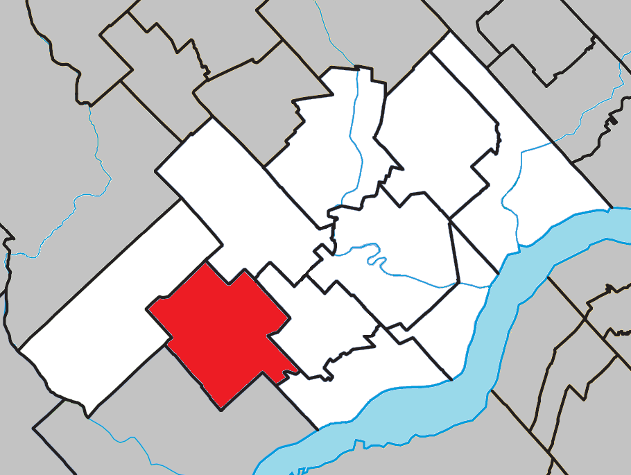 Location of Saint-Maurice, Quebec within Les Chenaux Regional County Municipality.